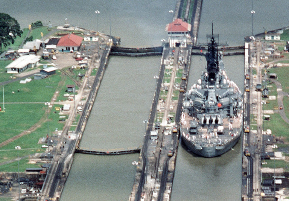 Aerial stern view of the battleship USS IOWA (BB 61) entering the Pedro Miguel Locks during its transit of the canal. The bulk ship Pacific Prestige, out of Hong Kong, enters the locks behind the IOWA.